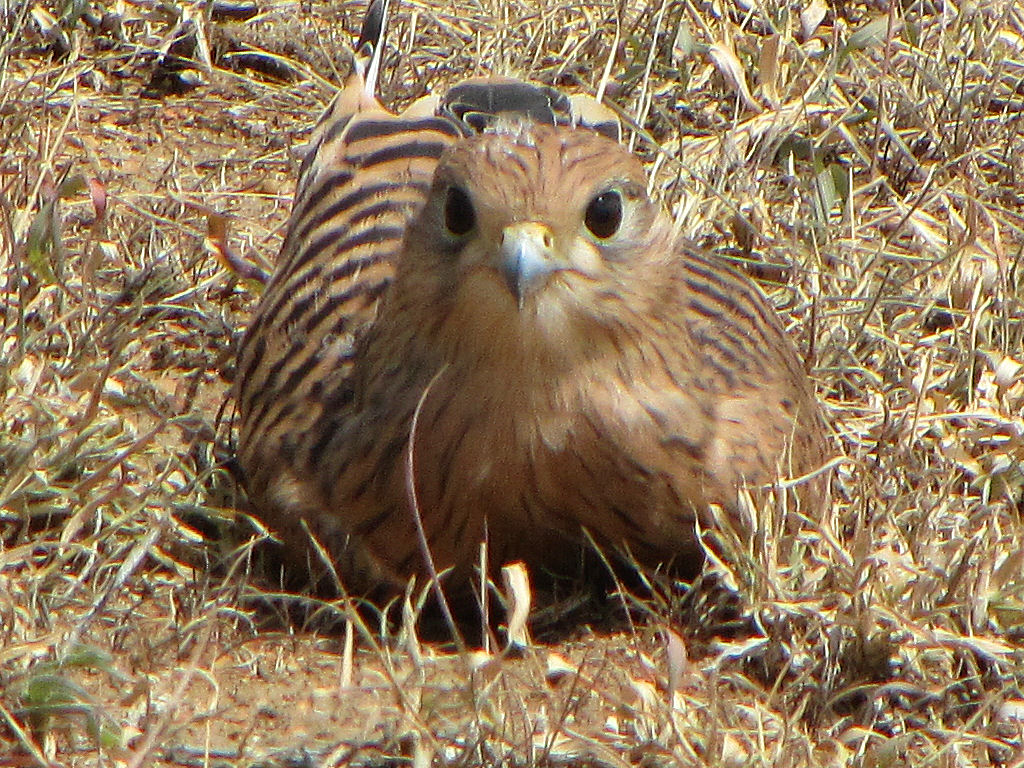 Greater Kestrel (Falco rupicoloides), juvenile, Serengeti National Park, Tanzania